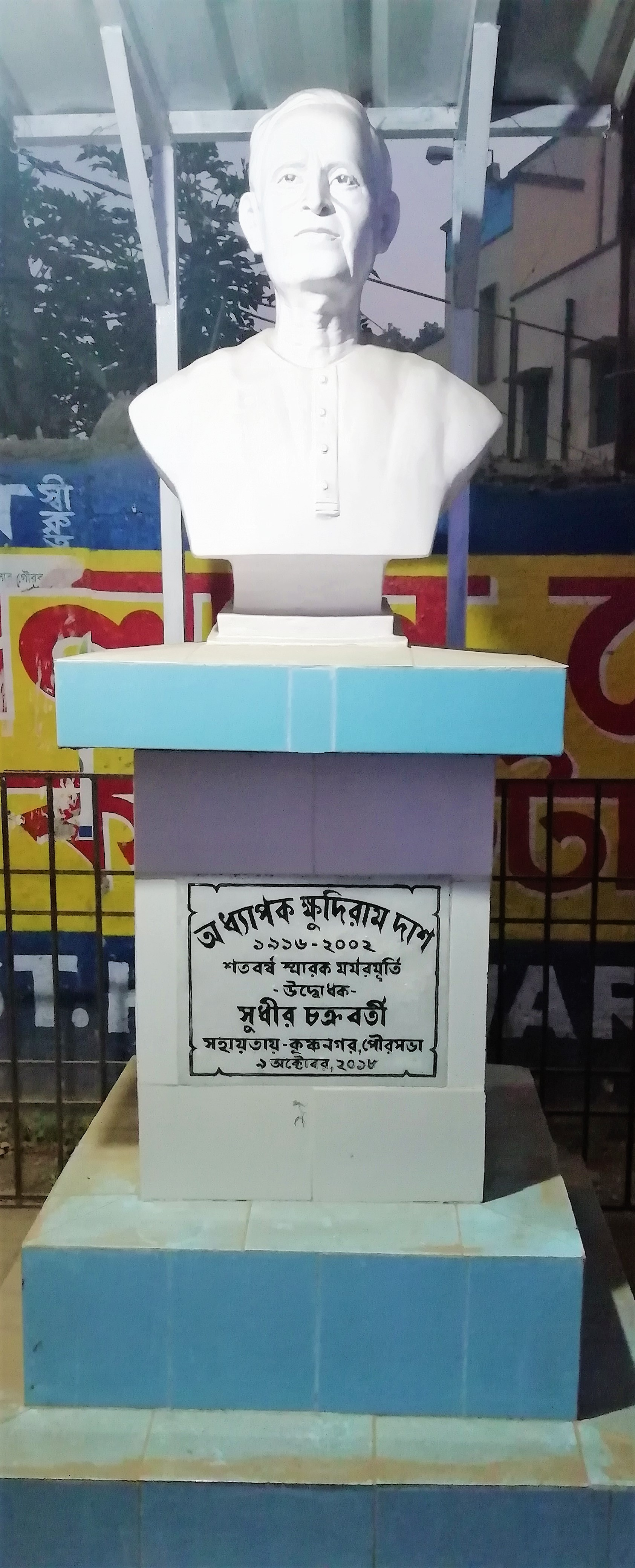 Bust of Dr. Khudiram Das erected in the Rabindra Bhawan area of Krishnagar